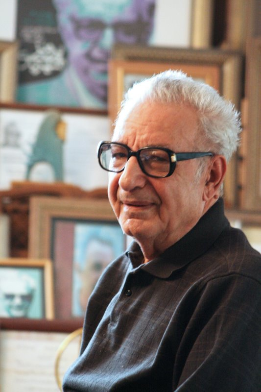 Parviz Shahriari (1926 - 2012), Iranian mathematician, translator and writer.